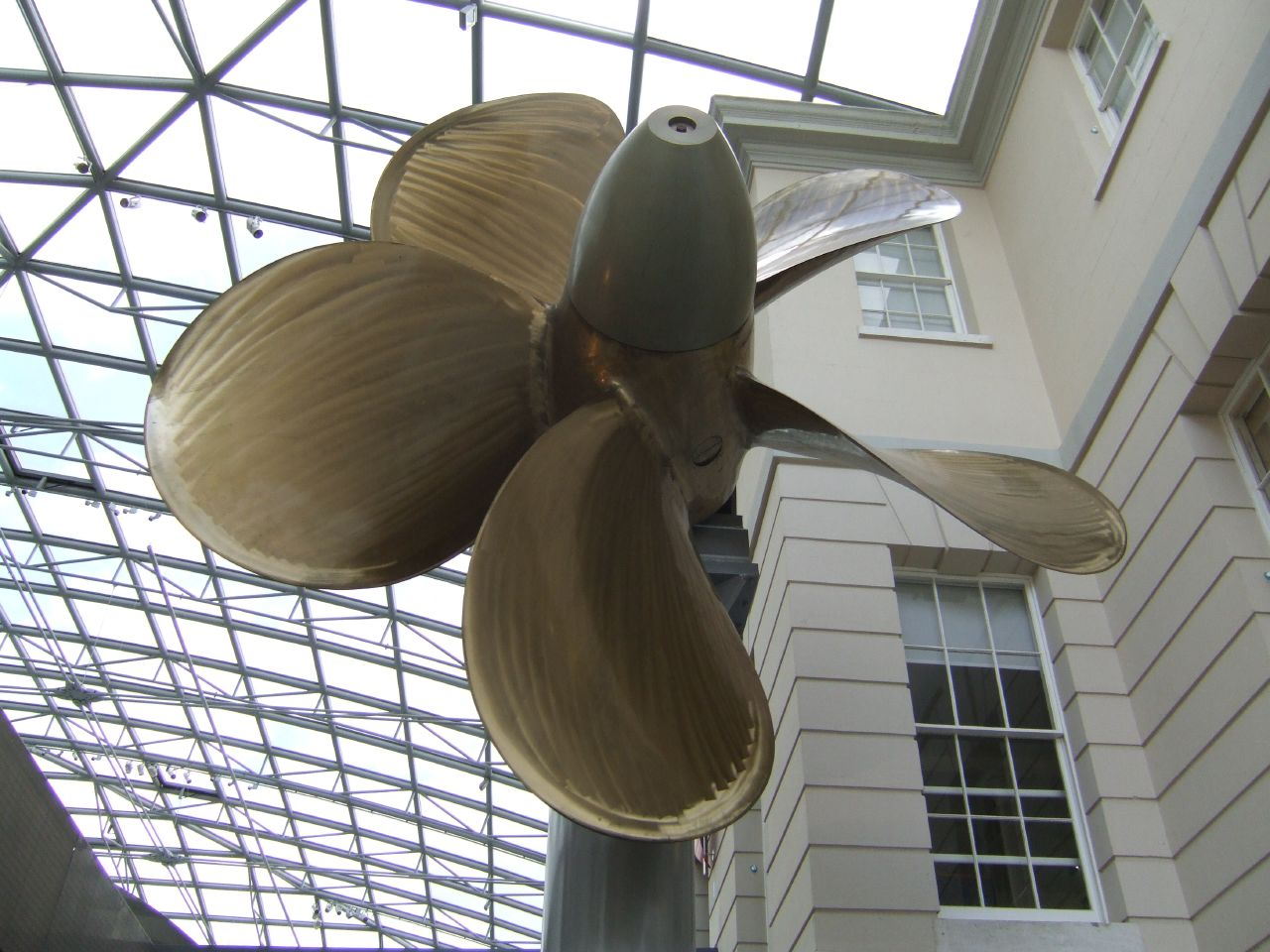 Summary: Propellor, National Maritime Museum, Greenwich UK Author:William Marnoch